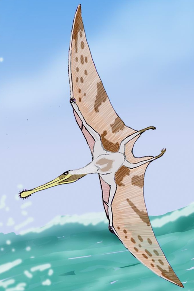 Gnathosaurus subulatus (flying).